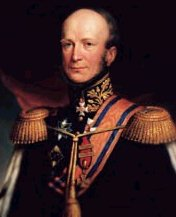 King William II of the Netherlands (1792-1849)